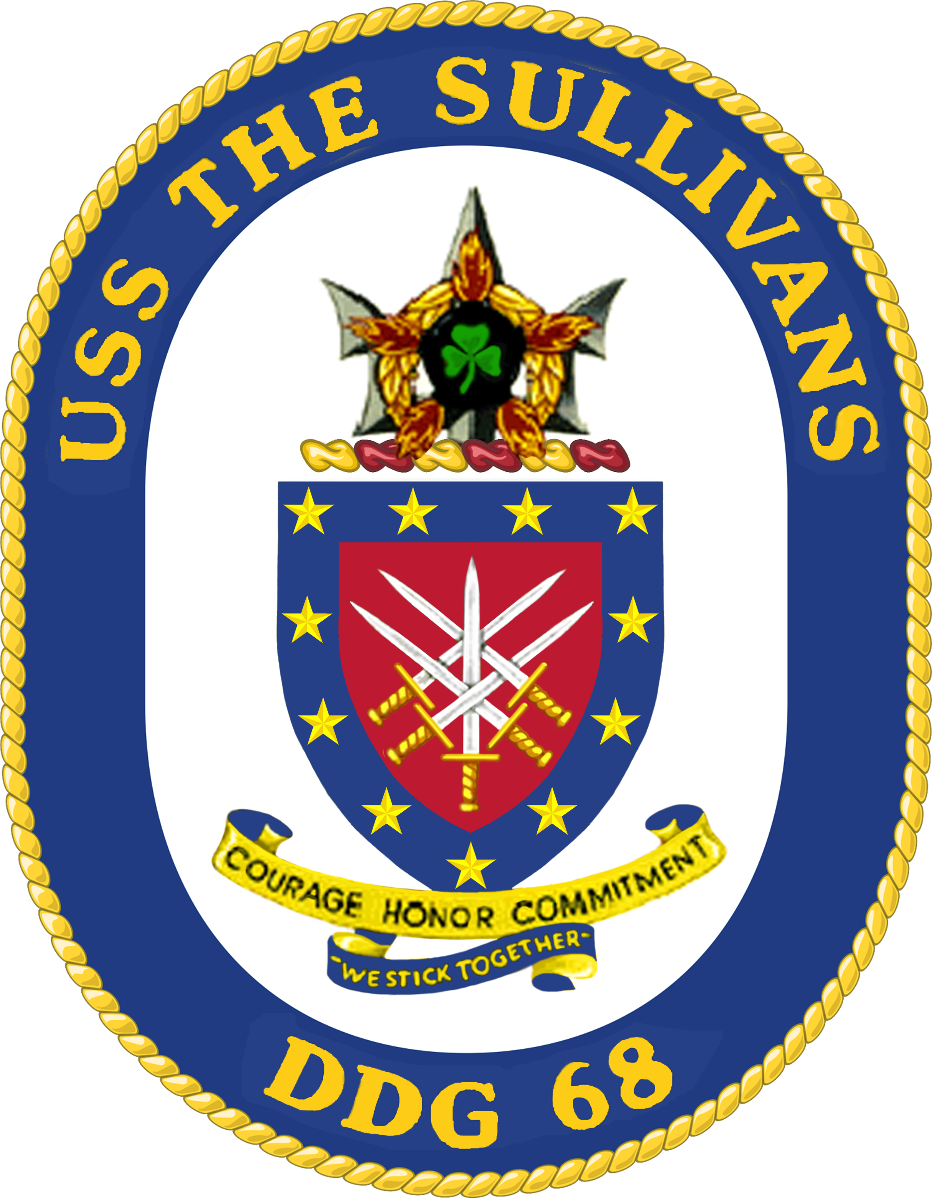 Shield: The dark blue and gold represent the sea and excellence. They are also the Navy's tradition colors. Red is emblematic of courage and sacrifice. The five interlaced swords honor the five Sullivan brothers killed in action during WW II and commemorate their spirit of teamwork and patriotism. The upright points of the swords allude to the present ship's combat readiness and its missile system. The border reflects unity and the eleven stars represent the battle stars earned by the first USS THE SULLIVANS; nine for WW II and two for the Korean War. Crest: The trident, symbol of sea prowess, symbolizes DDG 68's modern warfare capabilities; the AEGIS and vertical launch system. The fireball underscores the fierce battle of Guadalcanal where the five brothers courageously fought and died together and highlights its firepower of the past and present USS THE SULLIVANS. The inverted wreath, a traditional symbol of the ultimate sacrifice, is in memory of the Sullivan brothers. The shamrock recalls the Irish heritage. The arms are blazoned in full color upon a white oval enclosed by a dark blue collar edged on the outside with a gold rope and bearing the name "USS THE SULLIVANS" at the top and "DDG 68" in the base in gold.